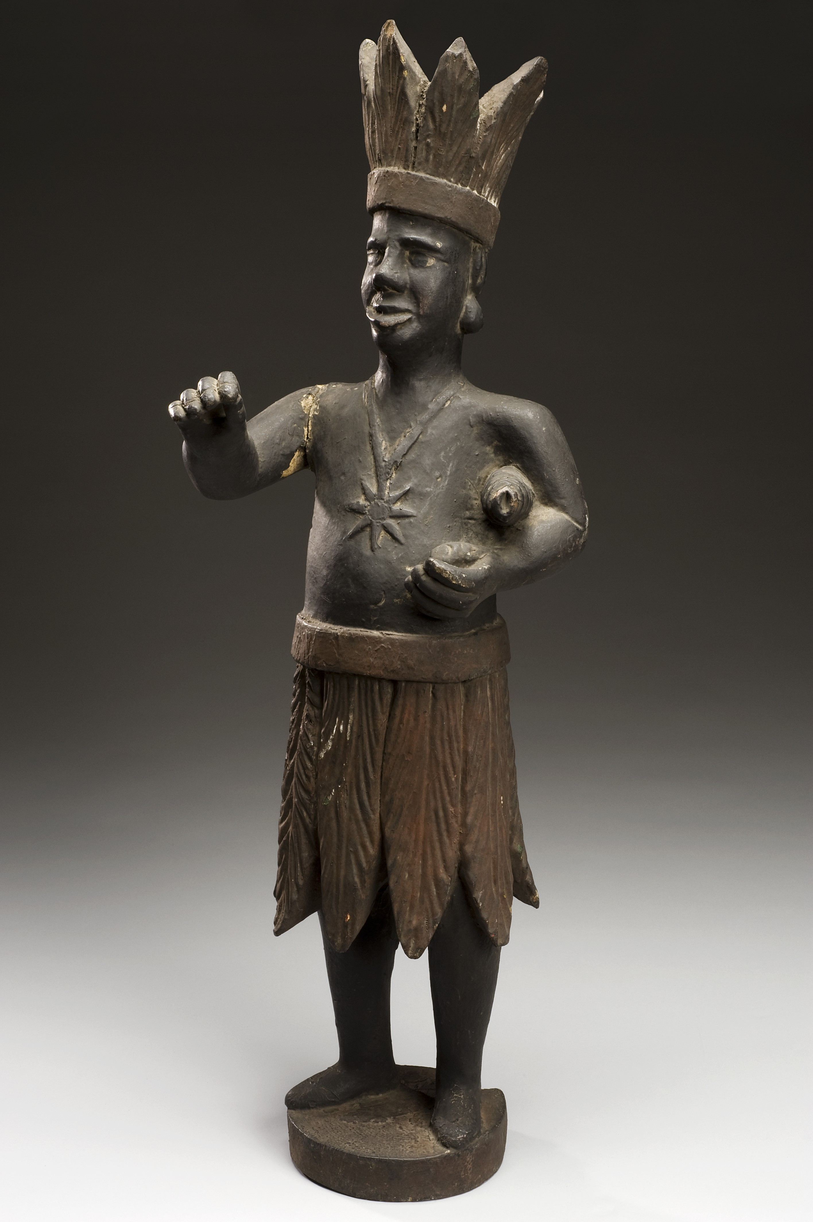 Made in the shape of a Native American from Virginia, United States, this was used as tobacconist’s sign to attract customers into the shop. Virginia was the site of the first European settlement in the United States (in 1607) and settlers began growing tobacco on increasingly large plantations there and exporting their product. Reflecting the origins of the product, Native Americans were commonly depicted on tobacconists’ shop signs. ‘Virginia’ tobacco is still available today but is now grown all over the world. maker: Unknown maker Place made: England, United Kingdom Wellcome Images Keywords: shop sign